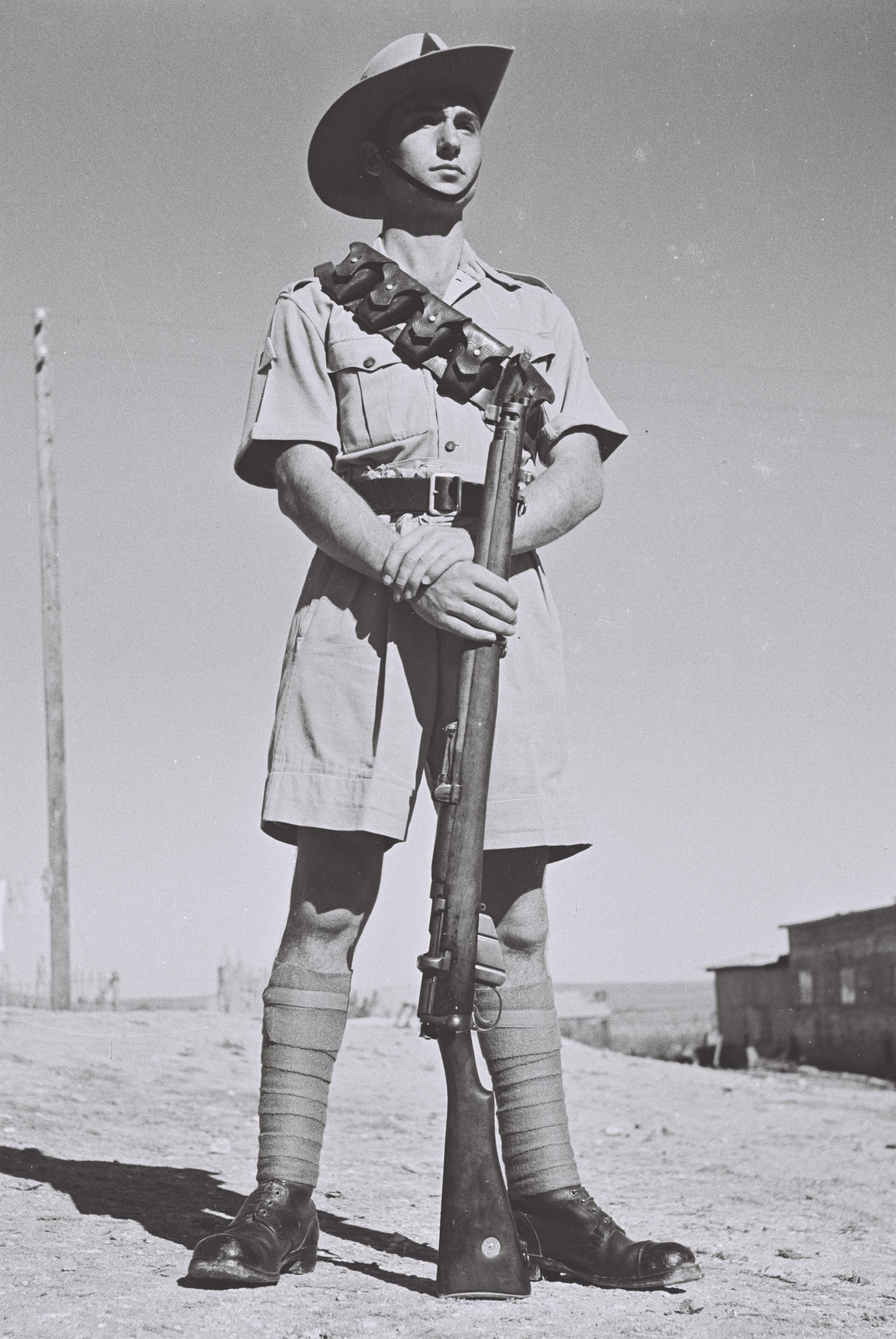 A MEMBER OF THE JEWISH SETTLEMENTS POLICE, UNDER THE COMMAND OF THE BRITISH POLICE IN PALESTINE. שוטר המשרת במשטרת היישוב היהודי, הכפופה למשטרה הבריטית של פלשתינה.